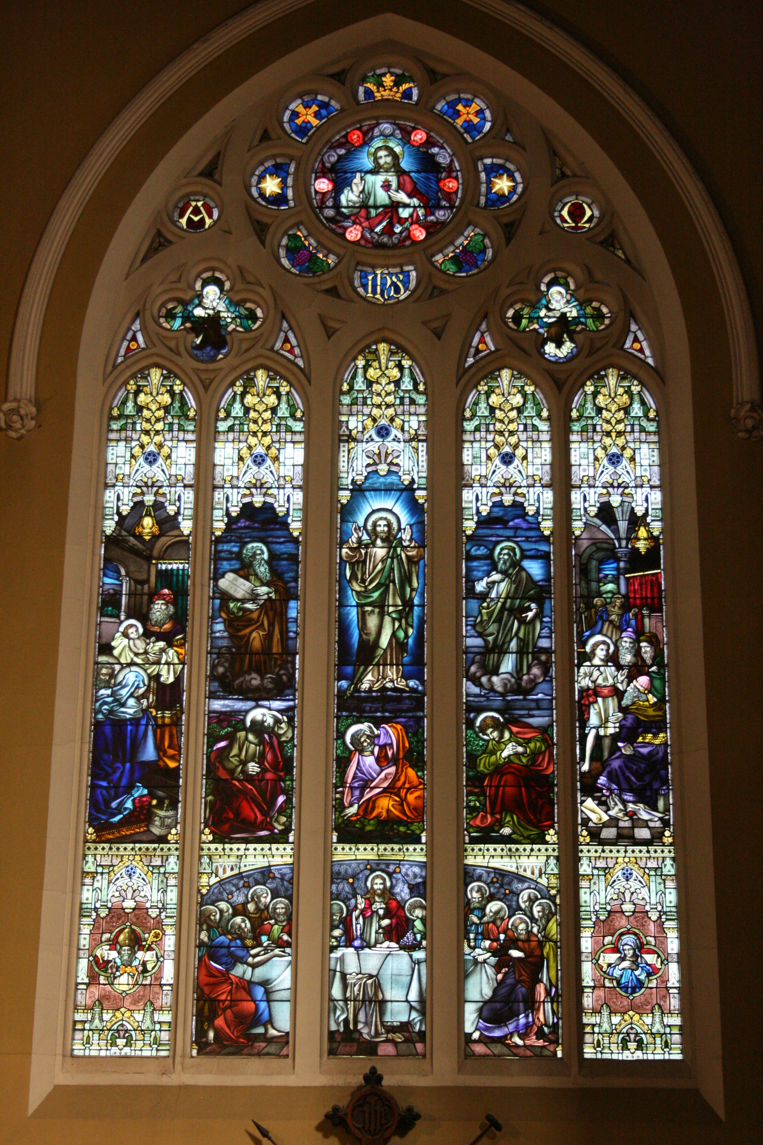 An example of a stain glass window at Star of the Sea